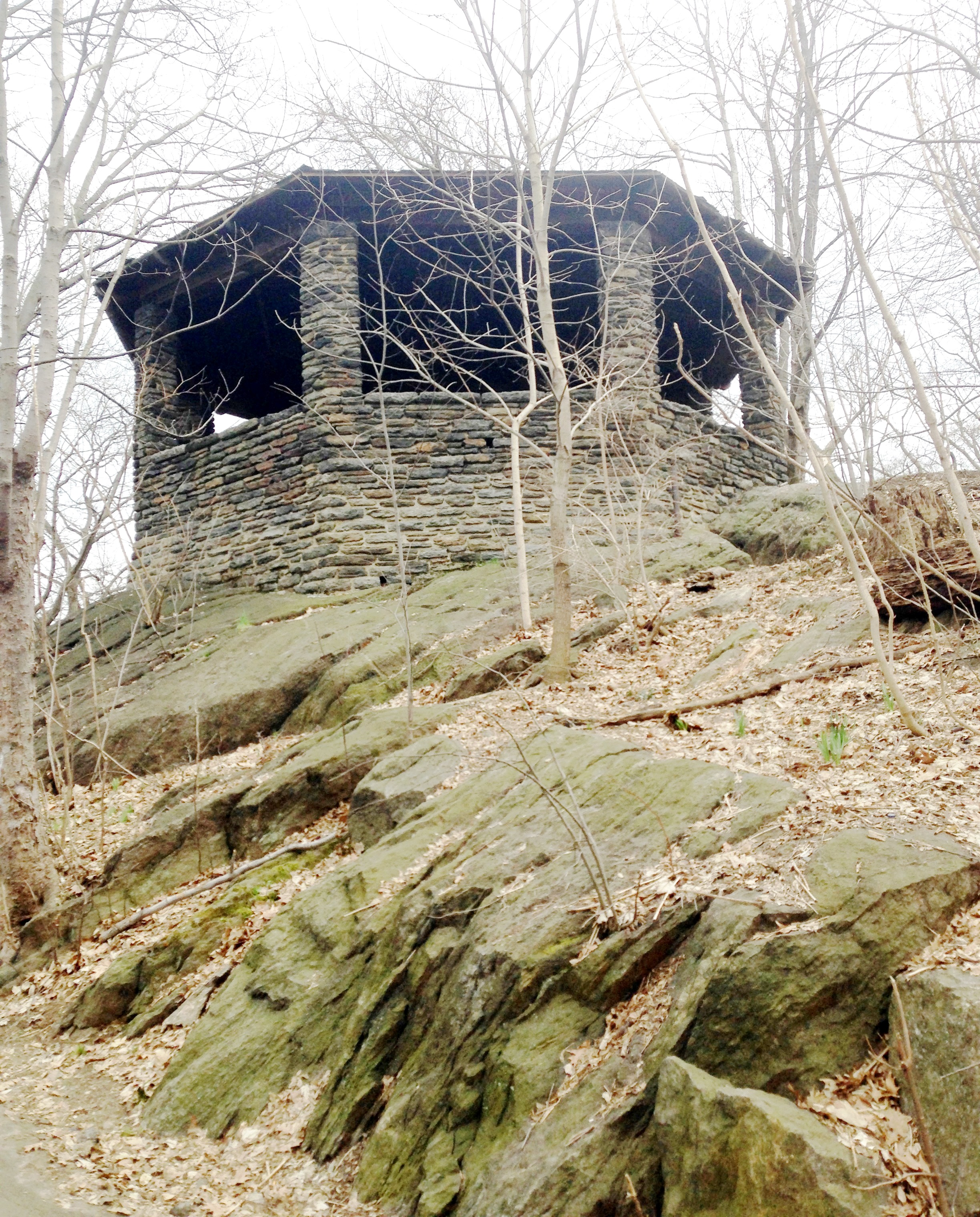 The Gazebo in Fort Tryon Park, Manhattan, New York City as seen from the path below it.